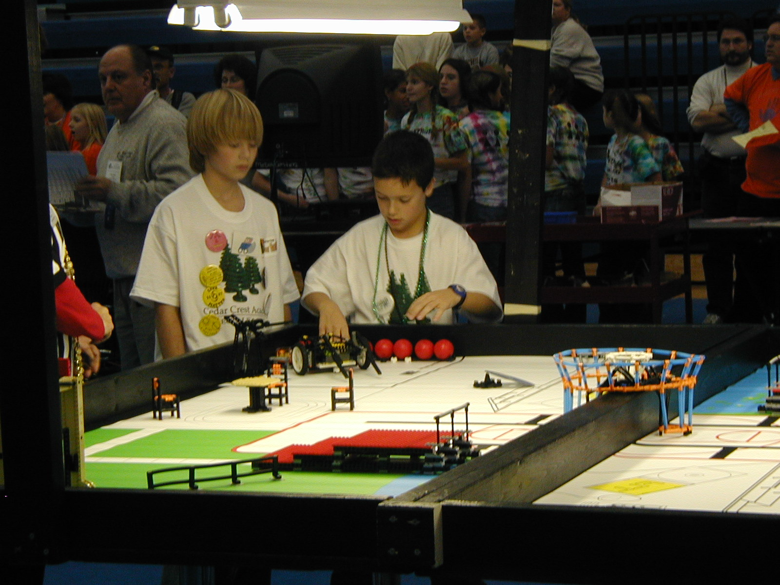 2004-05 FIRST Lego League game, No Limits